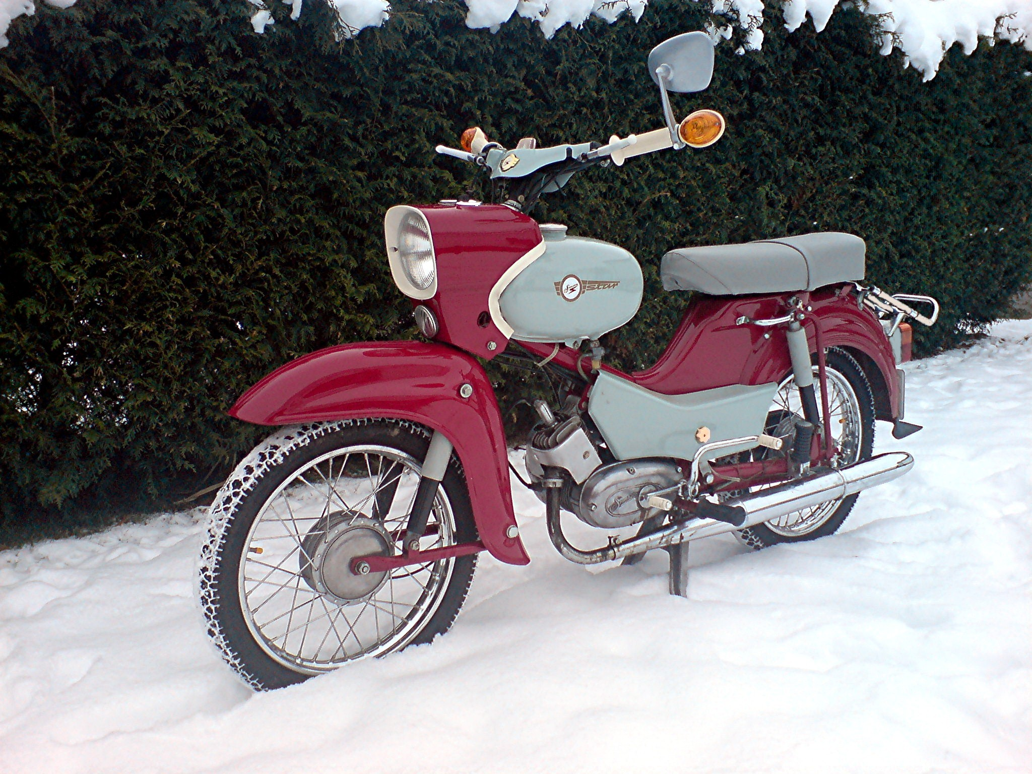 Simson SR4-2 (Star)